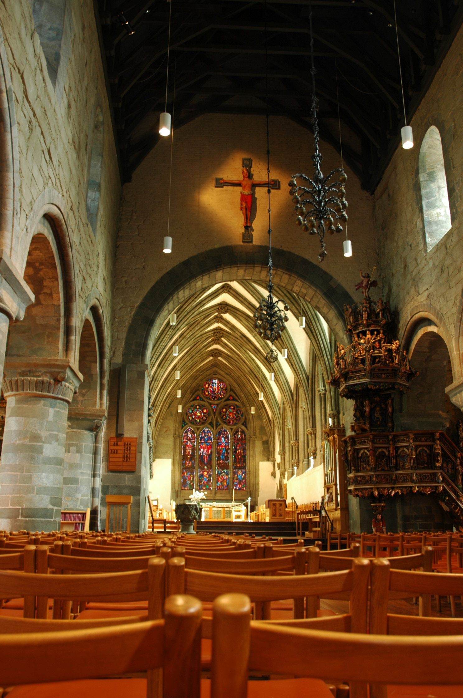 Stavanger Cathedral (Stavanger Domkirke) is Norway's oldest cathedral. [Wikipedia]